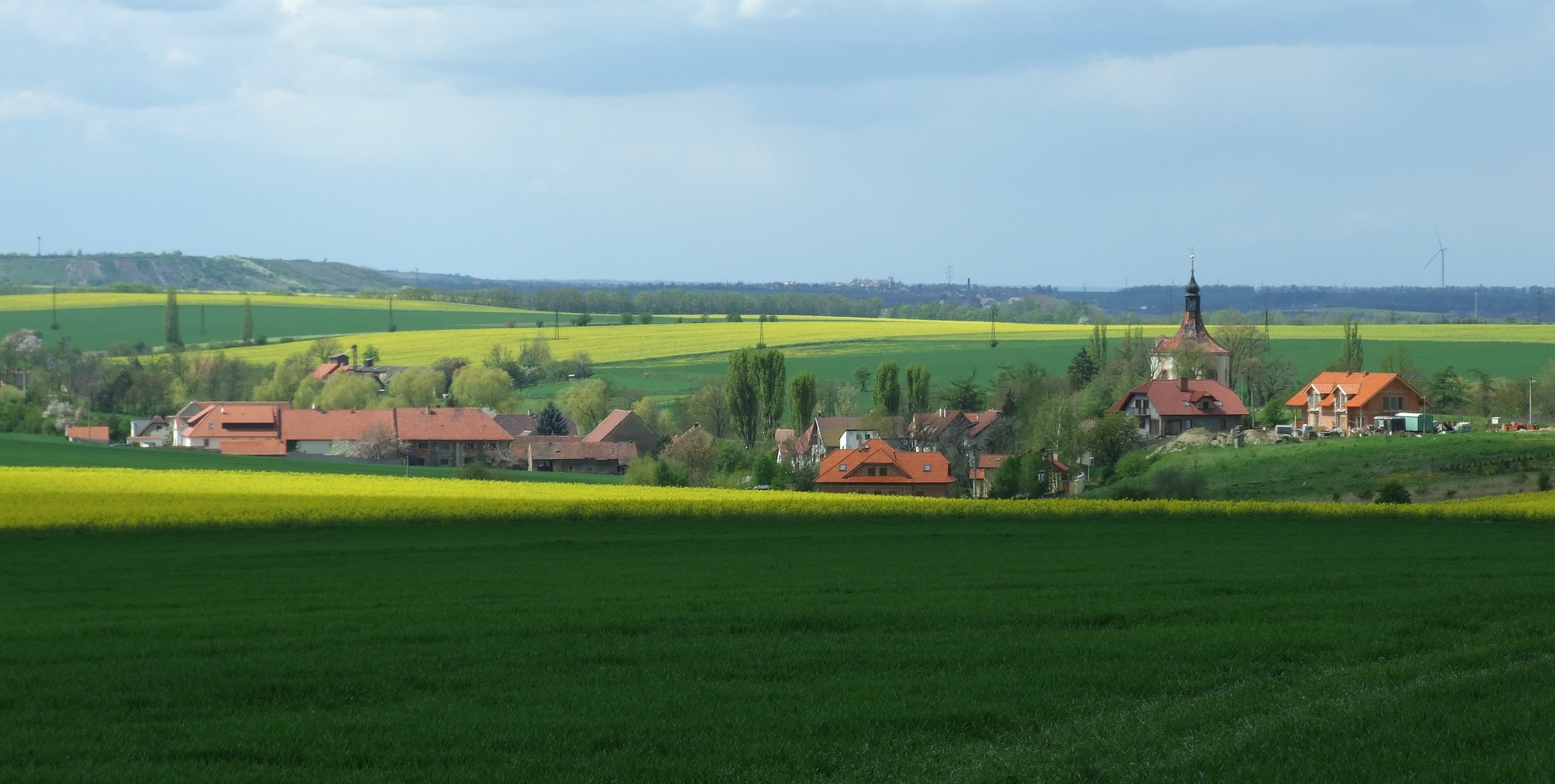 Číčovice, Prague-West District, Central Bohemian Region, Czech Republic. A general view of local part of Malé Číčovice from the southeast.